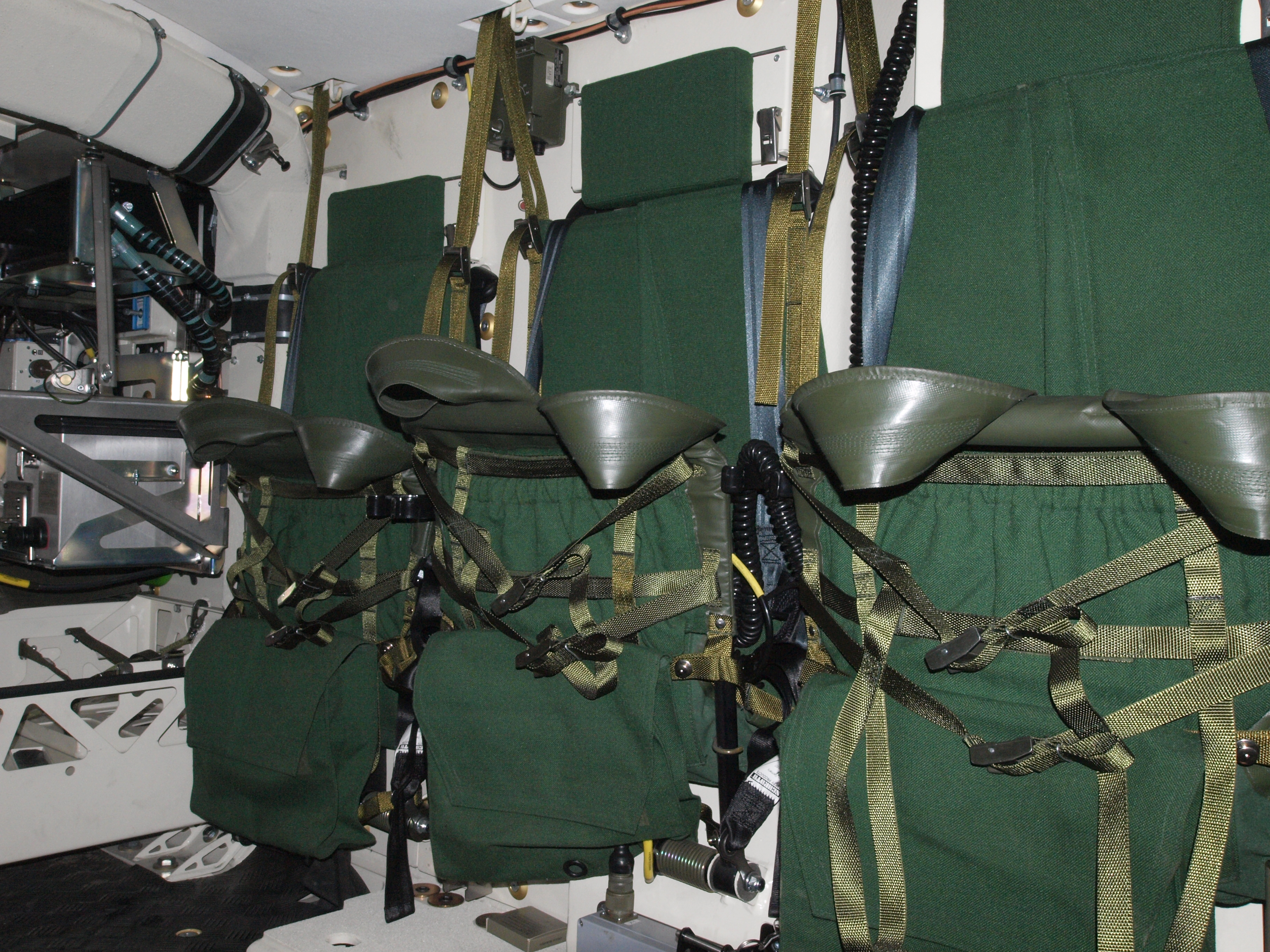 Inside a CV90. CV90 NL at Amersfoort.